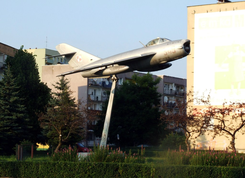 Mikoyan-Gurevich MiG-17PF aeroplane in Ostrowiec Swietokrzyski